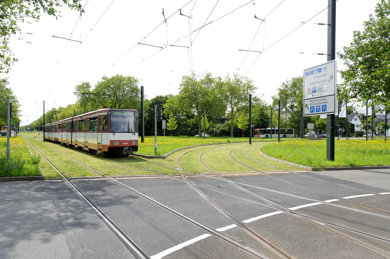 Freiligrathplatz in Düsseldorf-Stockum, Germany